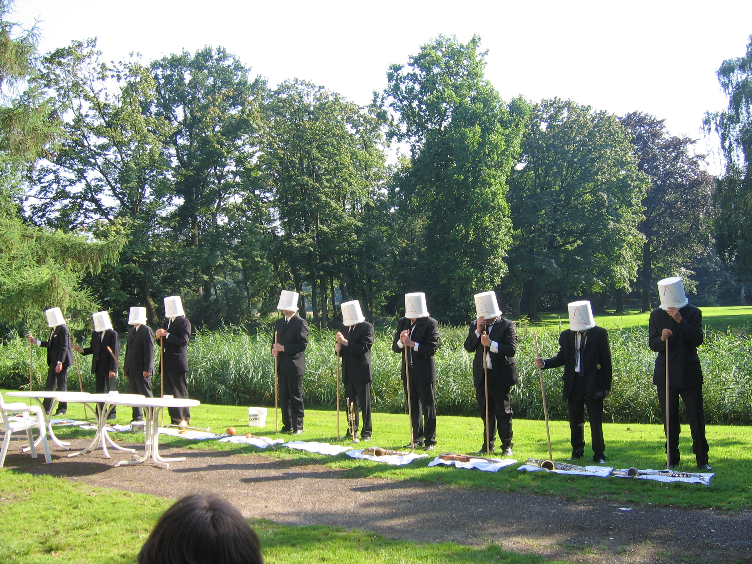 Artist-group Heinrich Mucken, Performance 'Herbert' (Kleve/Germany, 04. Aug. 2007, 25 years of Heinrich Mucken)